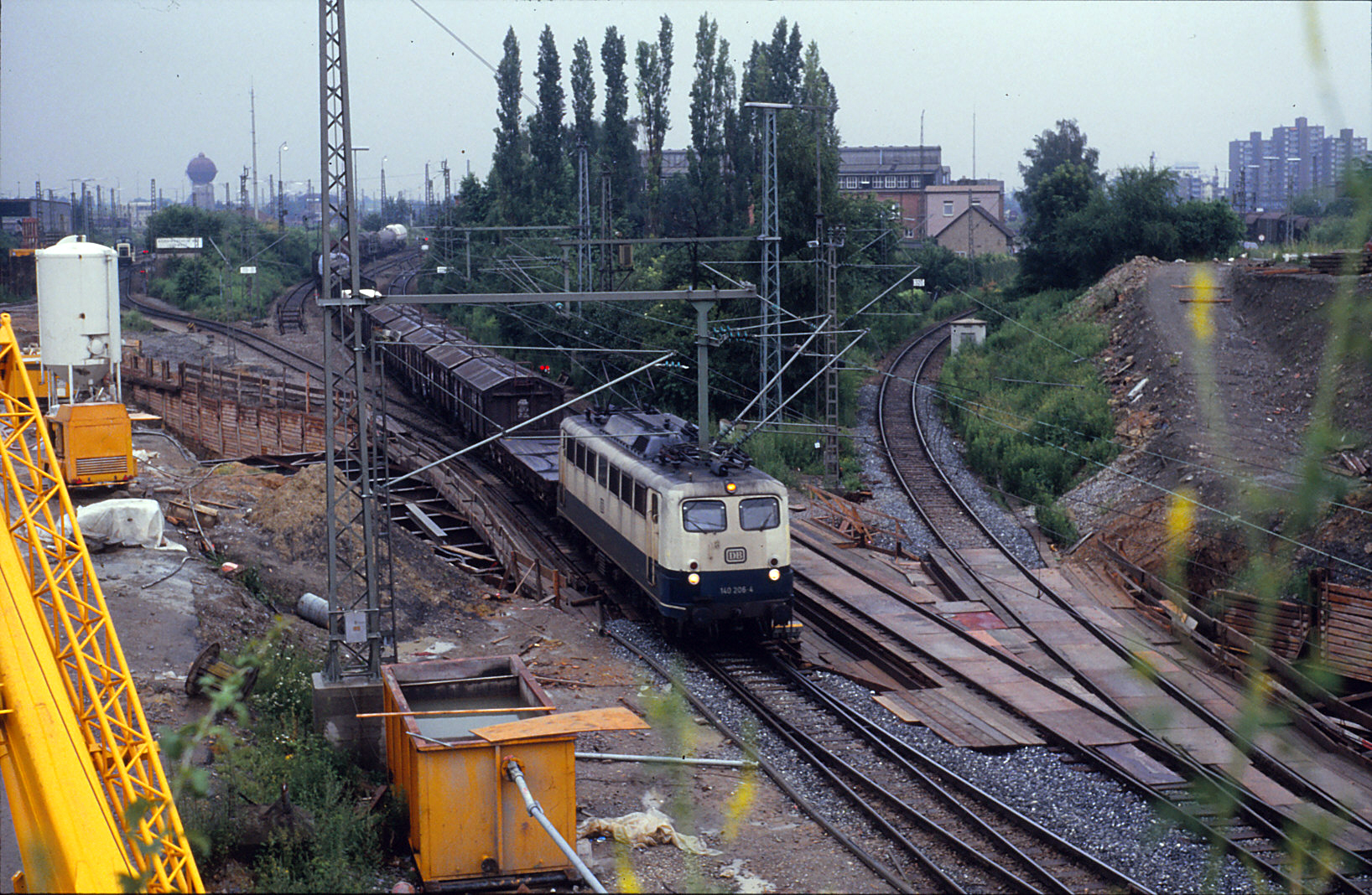 Construction works at Langes Feld Tunnel in 1987